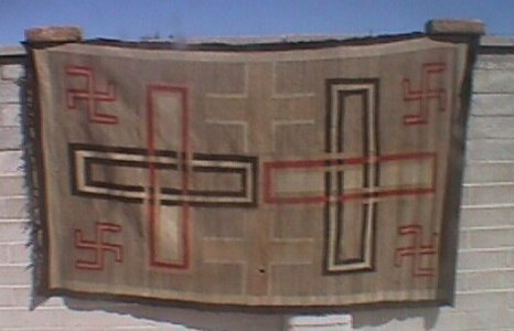 Early 20th century Navajo Whirling Log rug